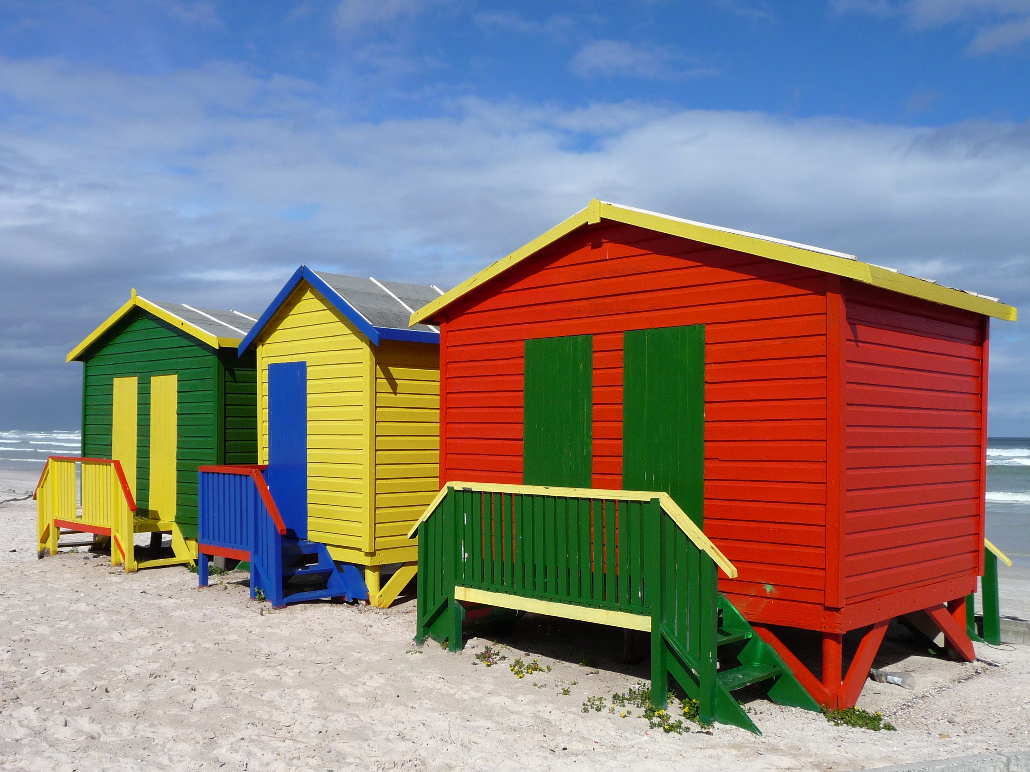 Colorful beach huts at Muizenberg beach South Africa